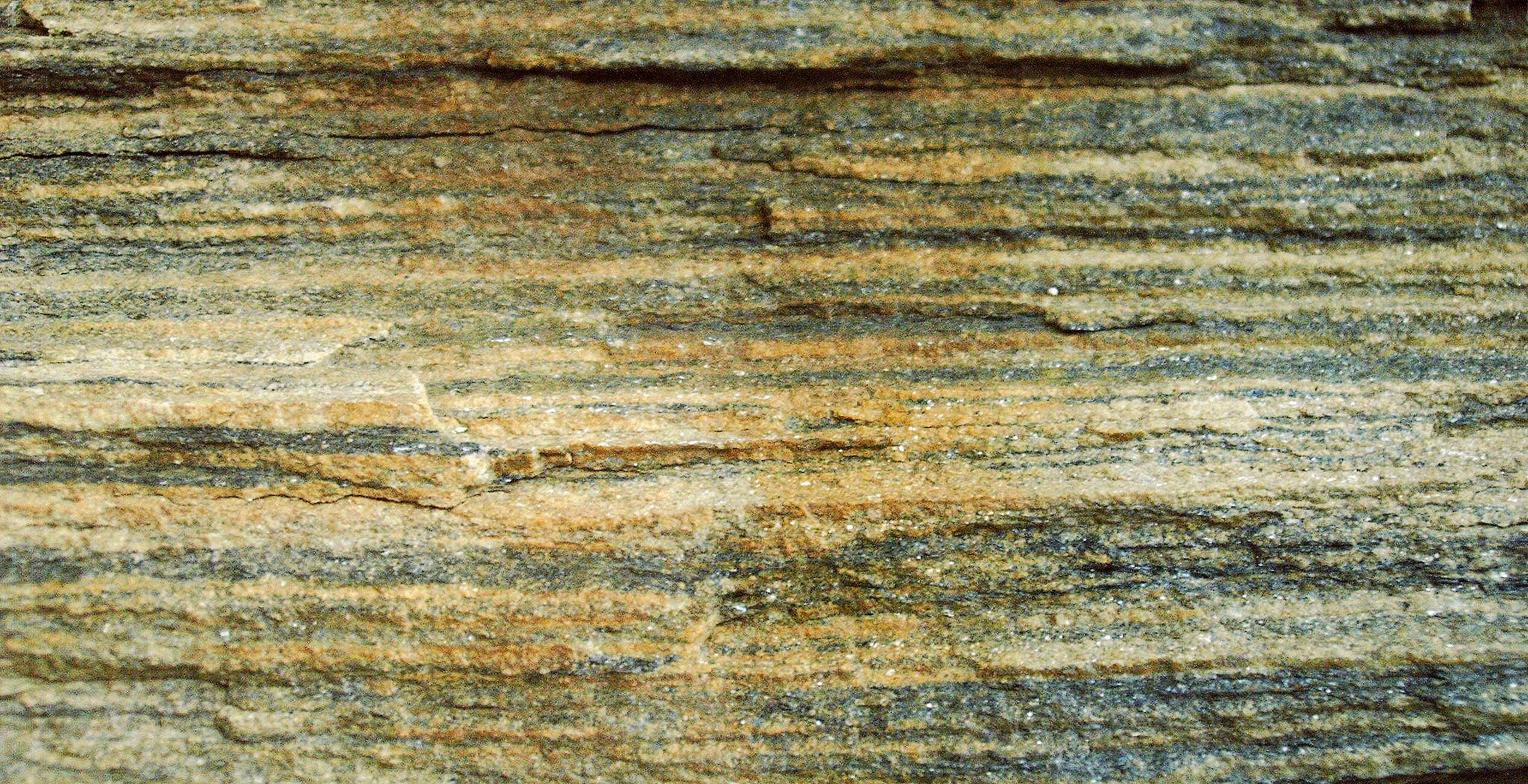 Ultramylonite gneiss from Doubravcany, near Kutna Hora, Czech Republic.